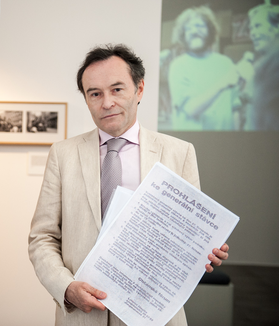 Petr Janyska posing with his object that will be digitised at the Europeana 1989 roadshow in Warsaw, Poland.